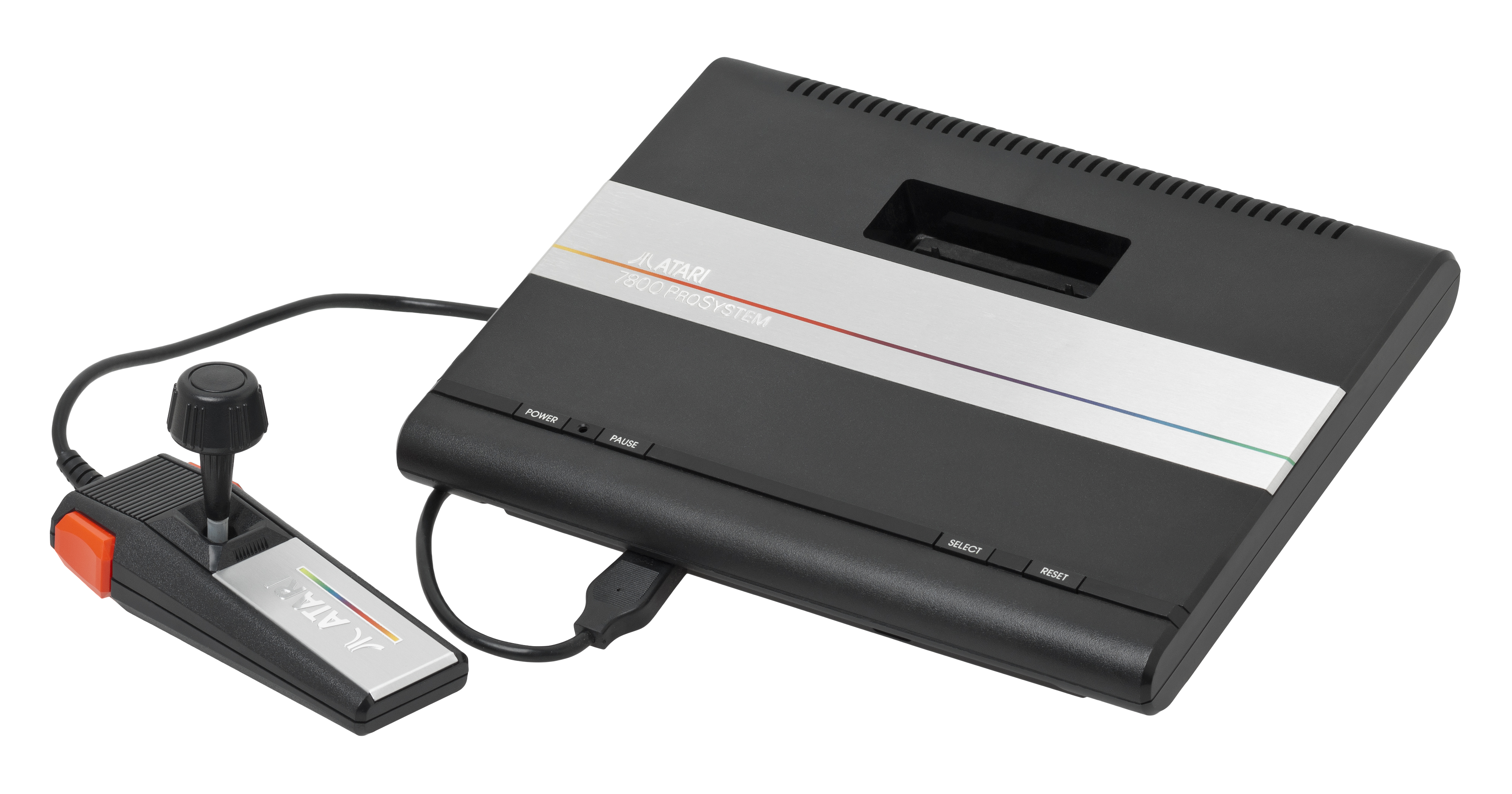 The American Atari 7800 with joystick controller. A third-generation video game console released by Atari in the mid '80s.